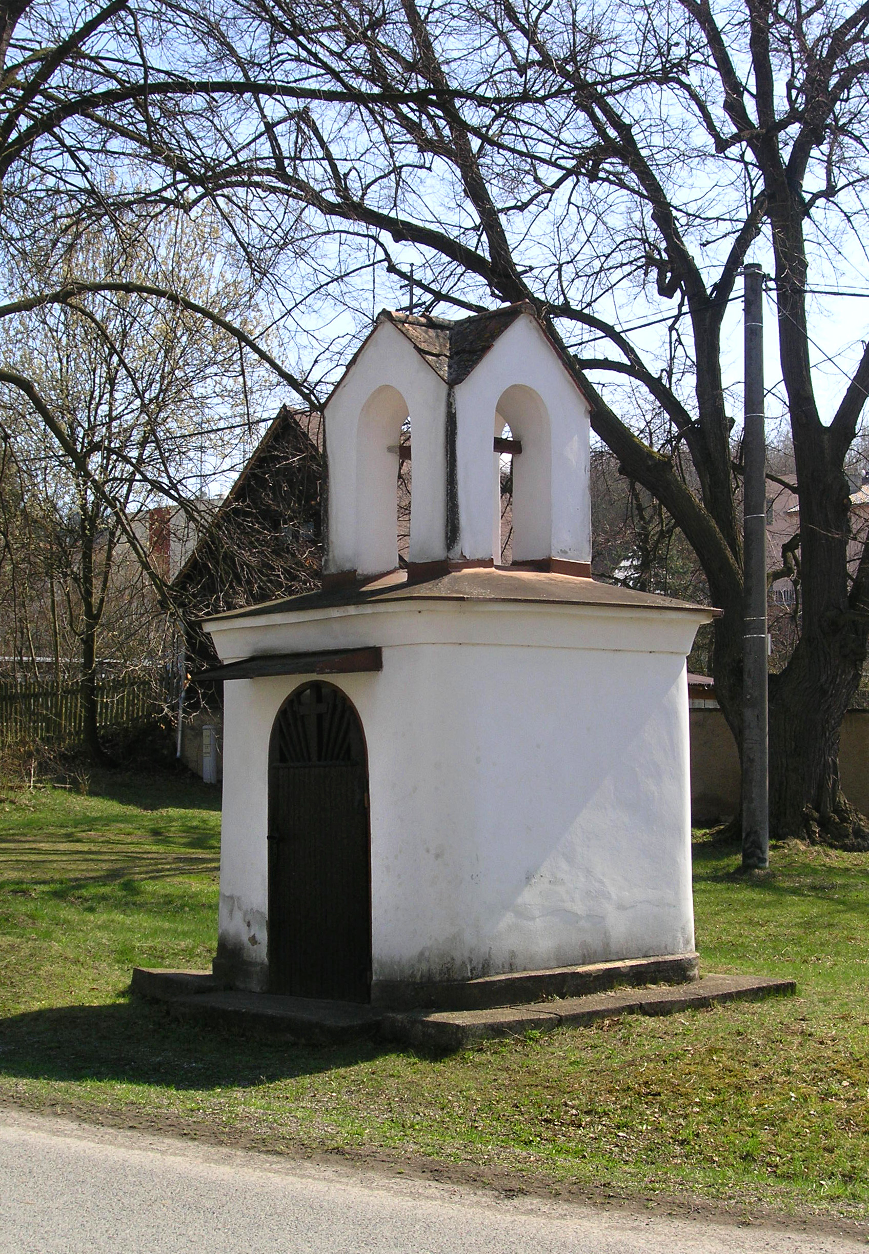 Chapel in Lhotka u Berouna, part of Chýňava village, Czech Republic